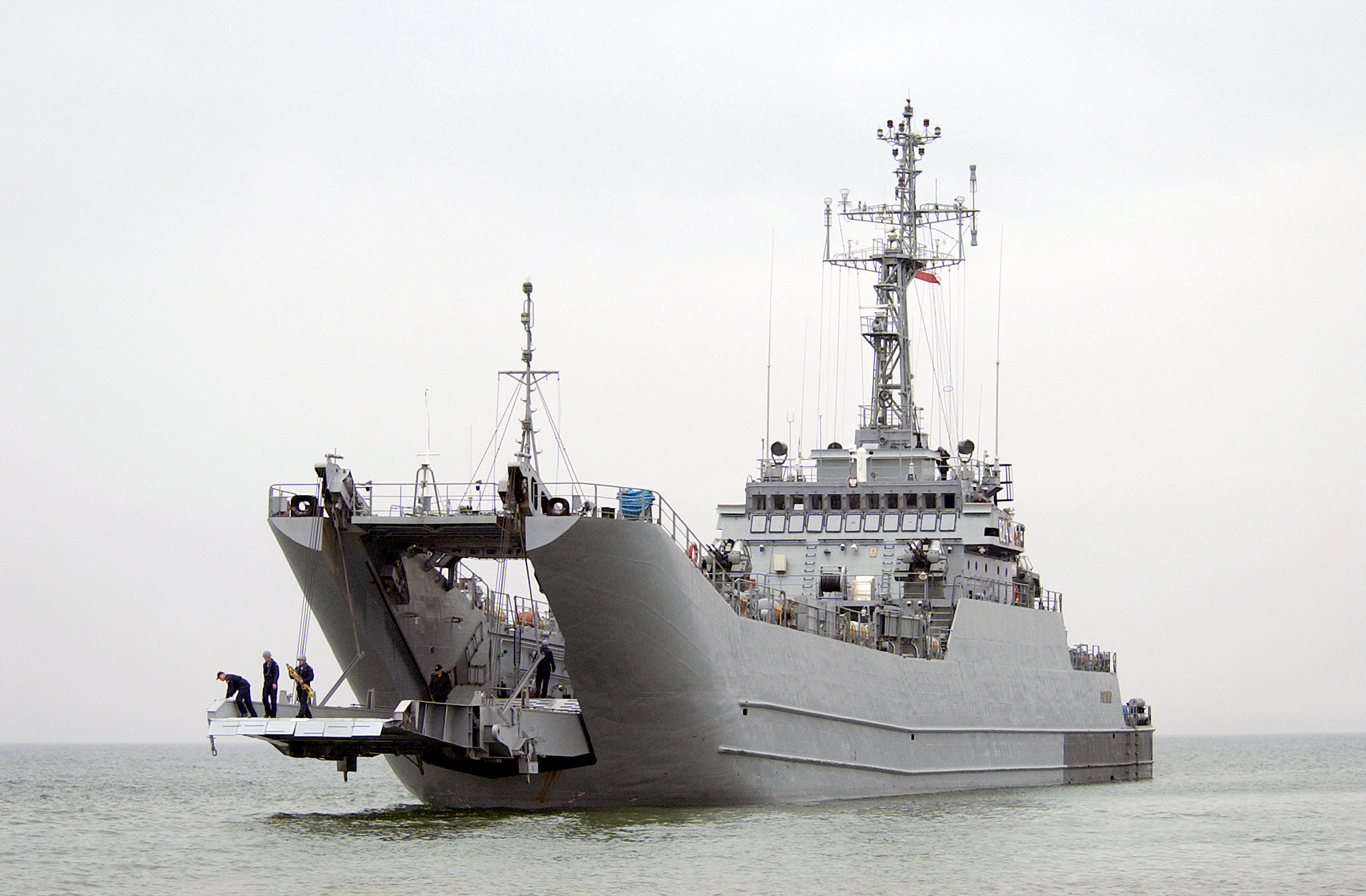 Original caption: "The POLISH Lublin Class (Type 767) LCT/Minelayer ORP POZNAN (824) opens its ramp in preparation to receive a combat raiding raft during Baltic Operations (BALTOPS) 2004. The mission of BALTOPS 2004 is to promote mutual understanding, confidence, cooperation, and interoperability among forces and personnel of the participating nations and support national unit/staff training objectives through a series of robust training exercises."